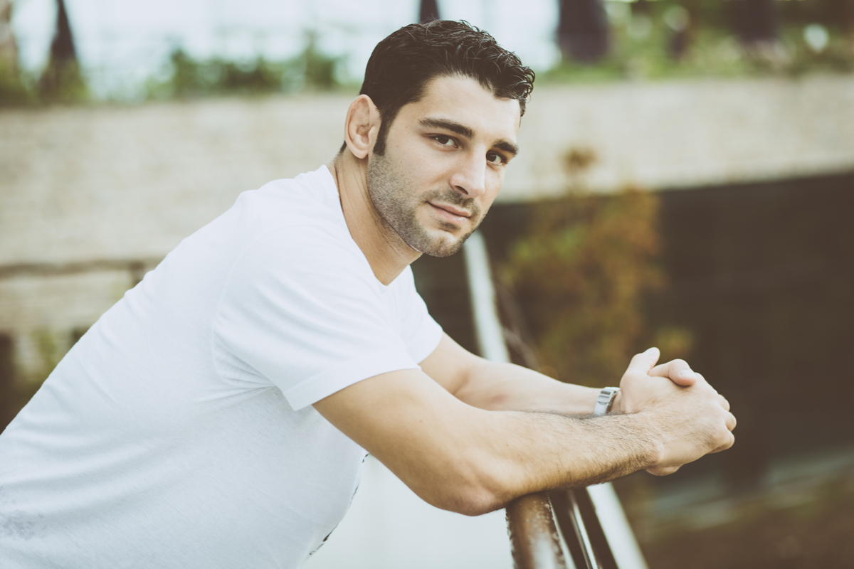 Andrea Minguzzi champion